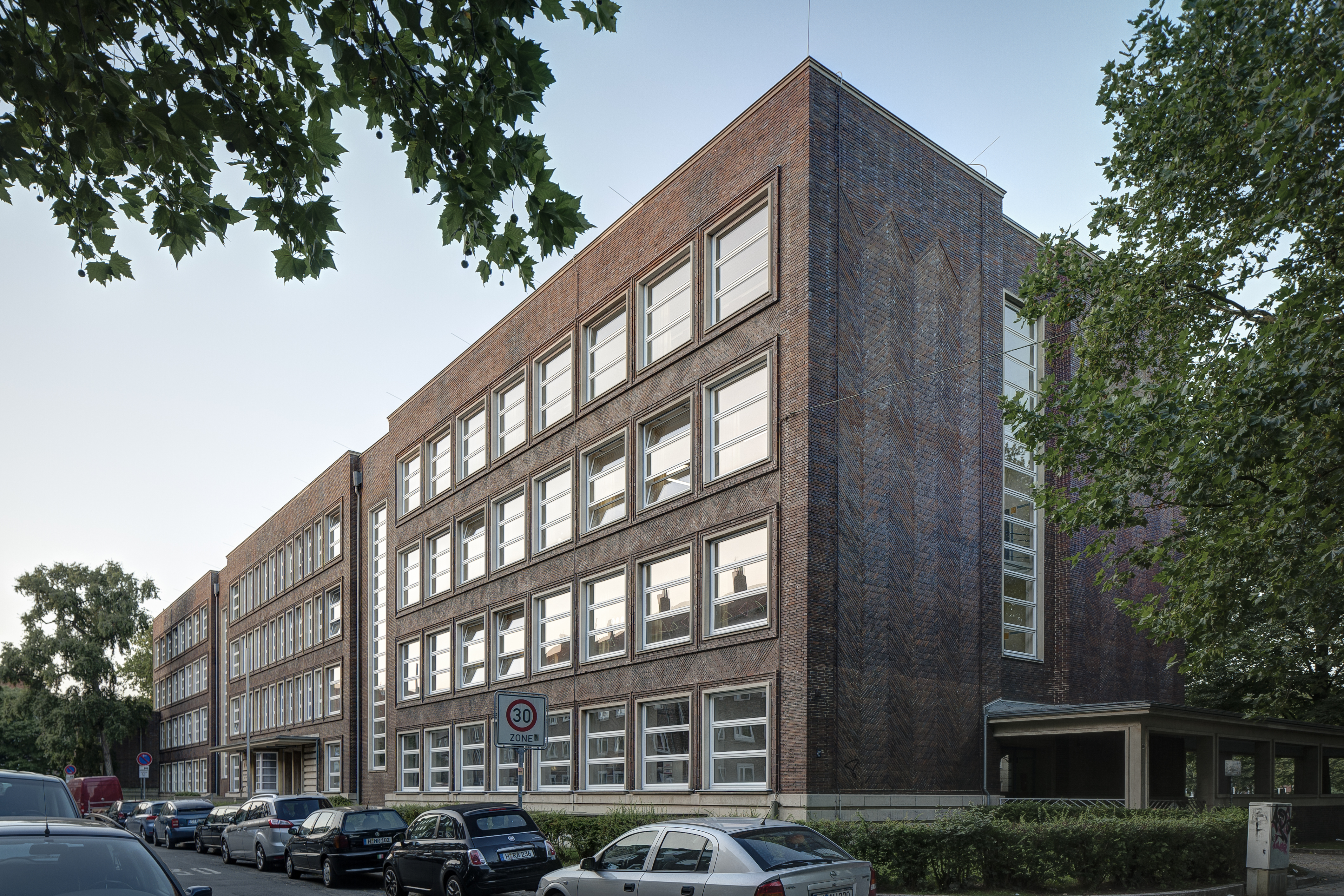 Bertha von Sutnner school at the Altenbekener Damm 20 in Hanover, Germany.